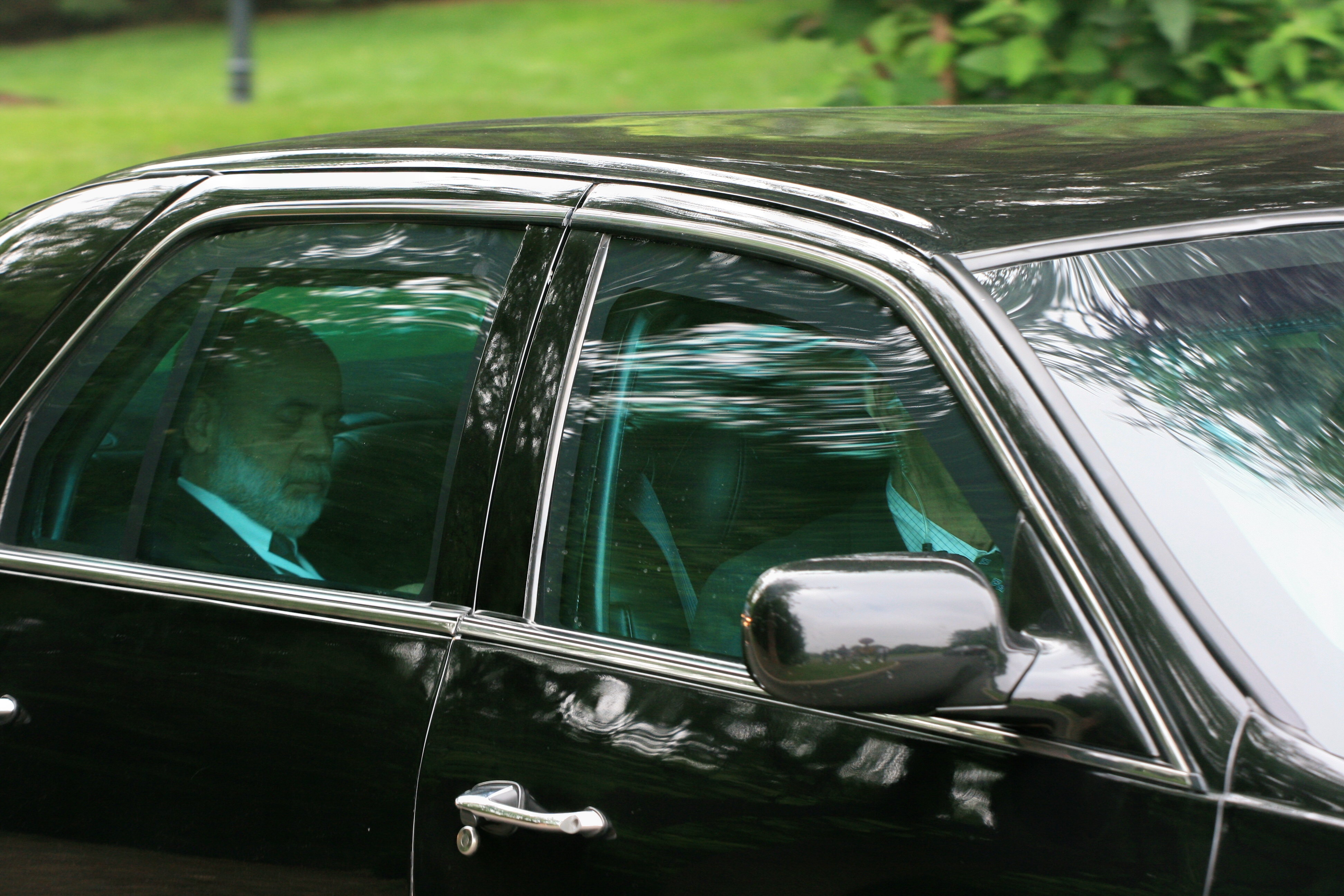 Ben Bernanke leaving the 2008 Bilderberg Conference